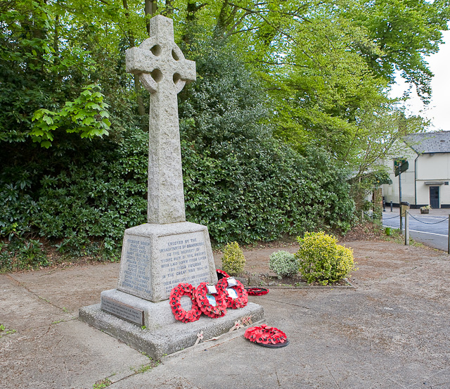 War Memorial, Bransgore